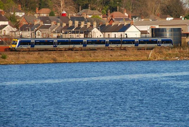 Railway, Larne The railway between Larne Town and Larne Harbour stations follows a tight curve subject to a 25mph speed restriction. The 12.53 from Belfast Gt Victoria St (SuO) has just left the Town station (out of sight to the left). The Redlands lagoon is in the foreground.